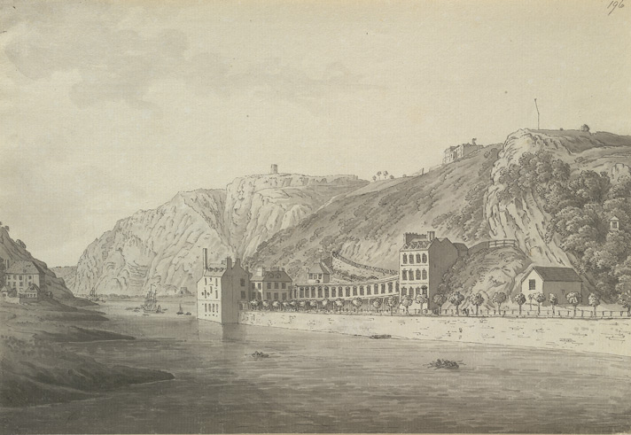 The Colonnade at Hotwells, Bristol in 1788 by the Swiss artist Samuel Hieronymus Grimm (1733-1794)